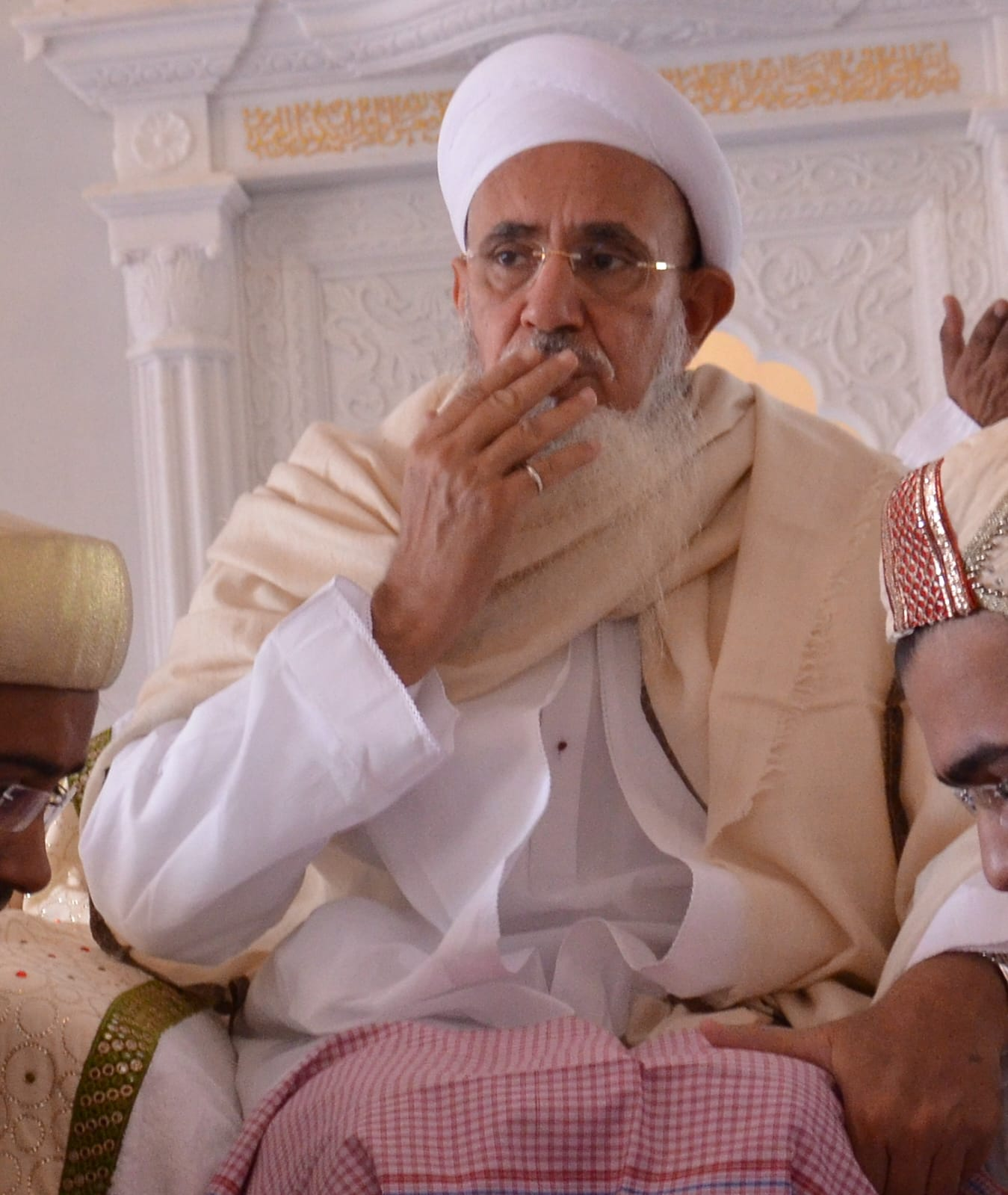 Syedna Muffadal at Nikah ceremony at Udaipur, India as state Guest